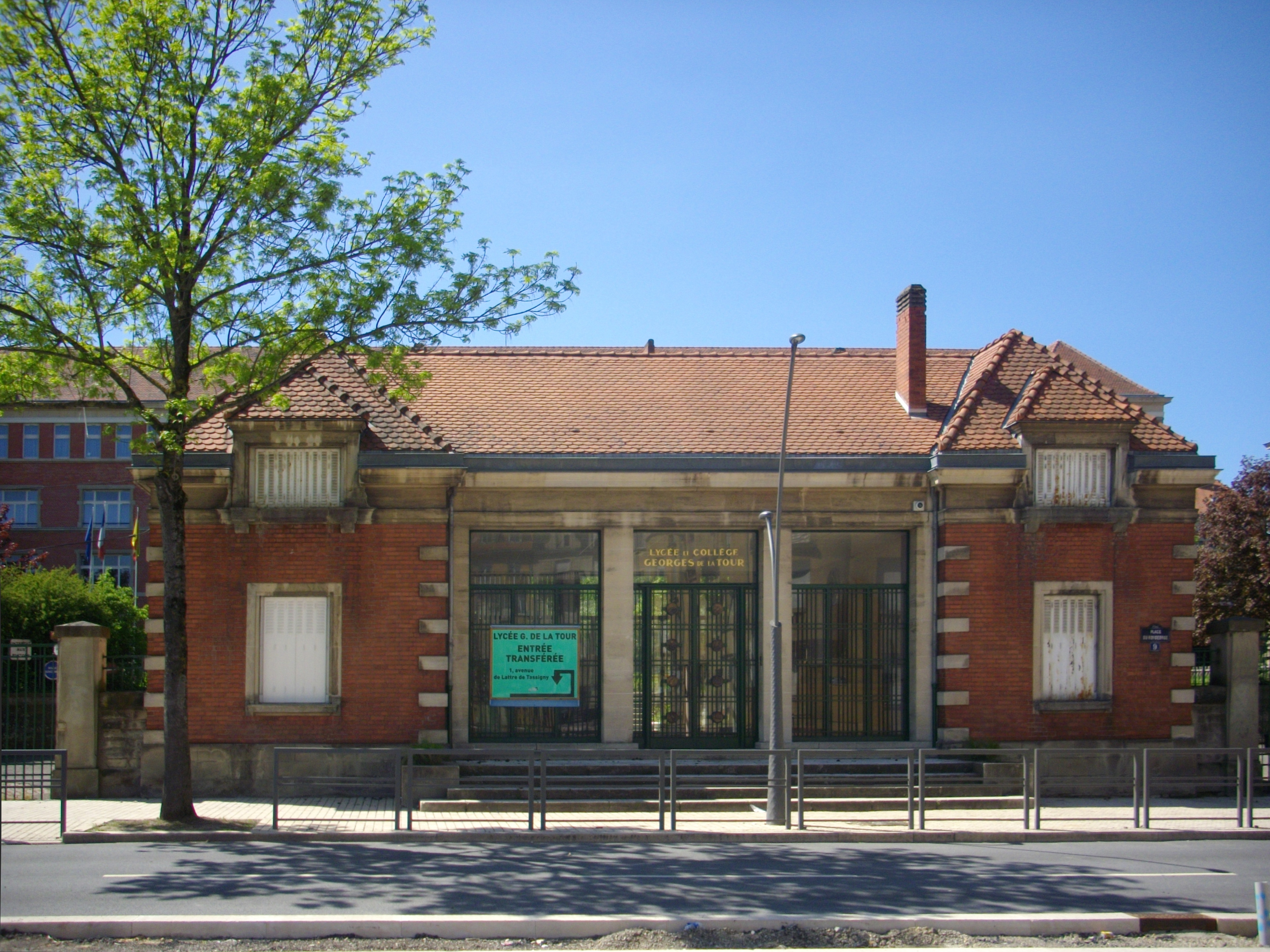 Entry of Georges-de-La-Tour lycée on King George square in Metz (Moselle, France)